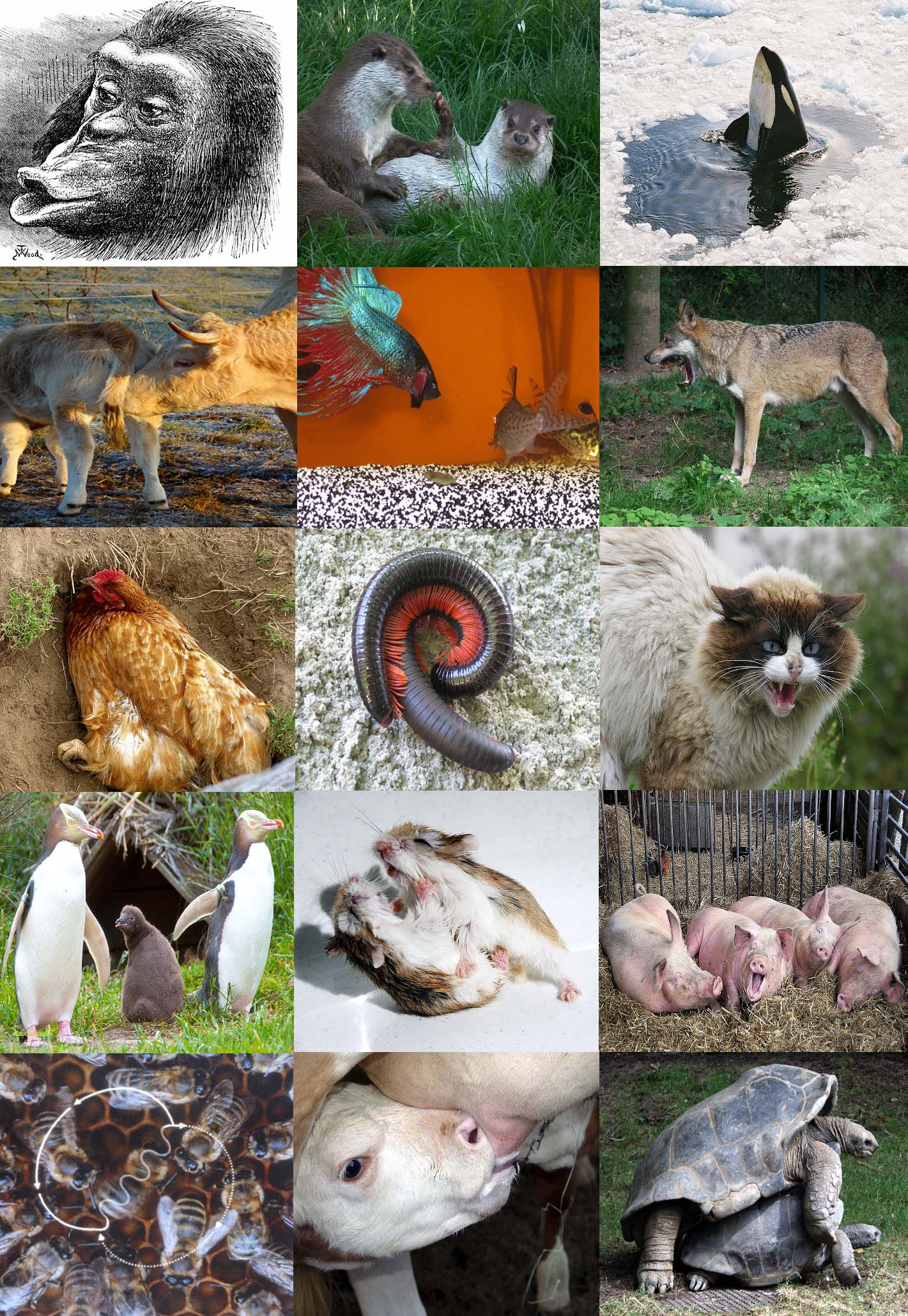 This is a collection of images intended to show a diversity of animal behaviour (ethology). All the images were taken from the wikimedia commons.